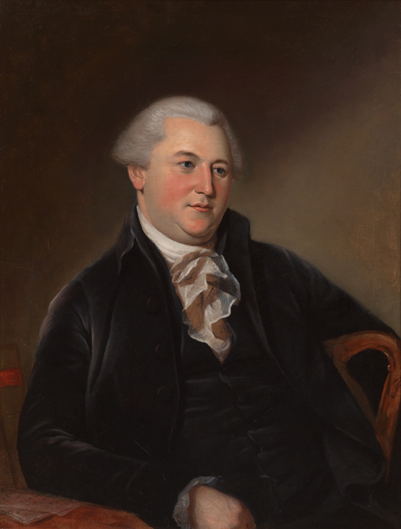 DATE 1785-1795 ARTIST Charles Willson Peale DIMENSIONS 35 x 26 1/2 in. (88.9 x 67.3 cm) Framed: 49 x 40 1/2 in. (124.5 x 102.9 cm) ACCESSION NUMBER 2005.020.000 CREDIT LINE Collection of the U.S. House of Representatives